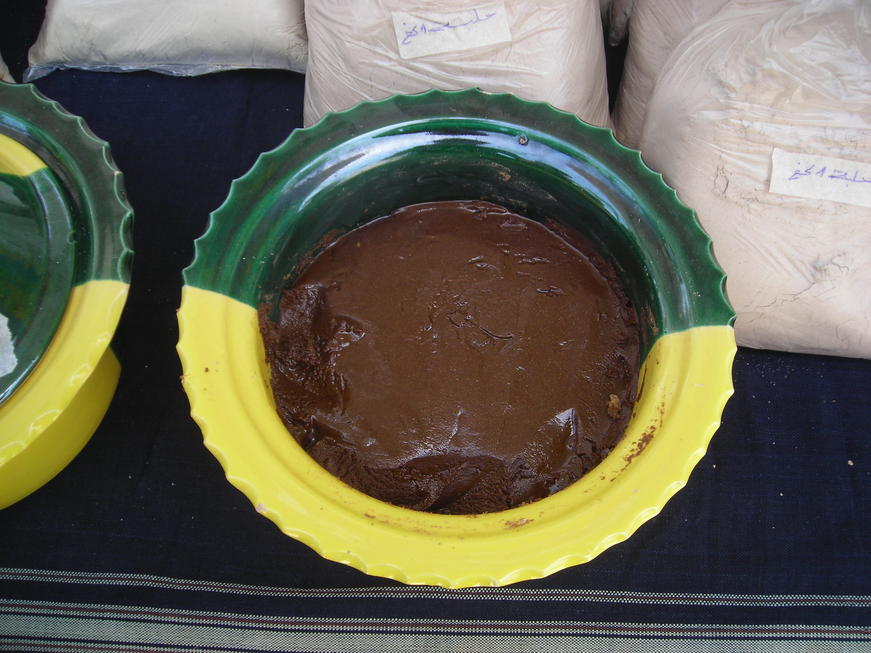 Fenugreek Bsissa